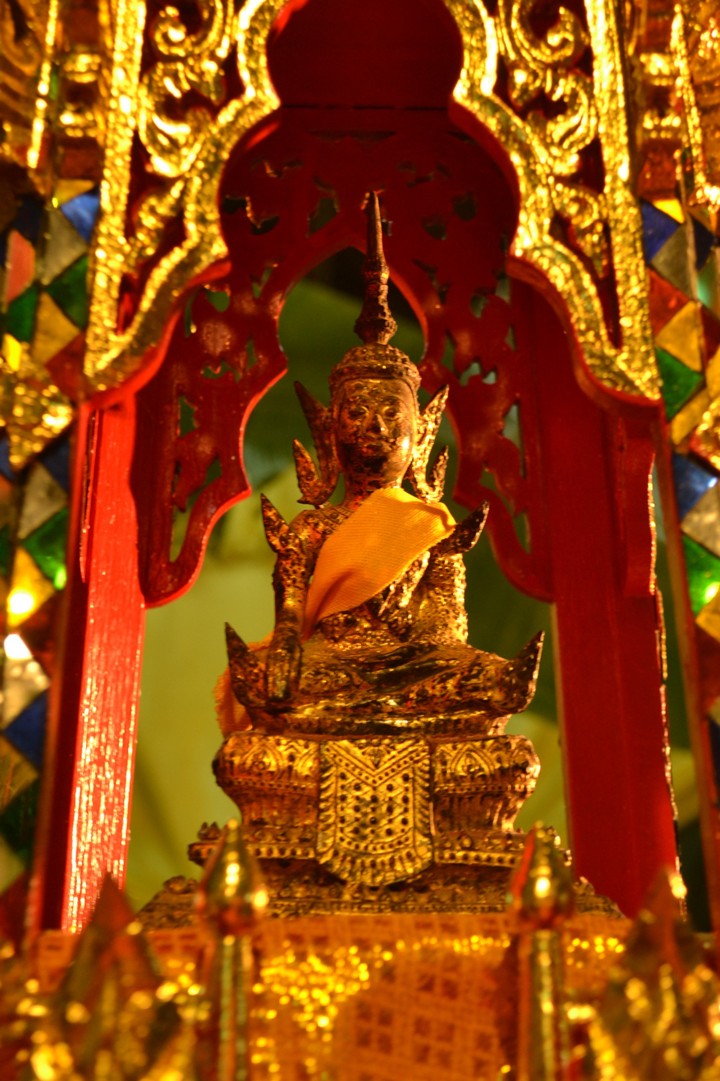 Buddha in Buddhism School of Watkungtaphao Location: Wat Khung Taphao Ban Khung Taphao, Khung Taphao subdistrict, Mueang Uttaradit, Uttaradit Province, Thailand.